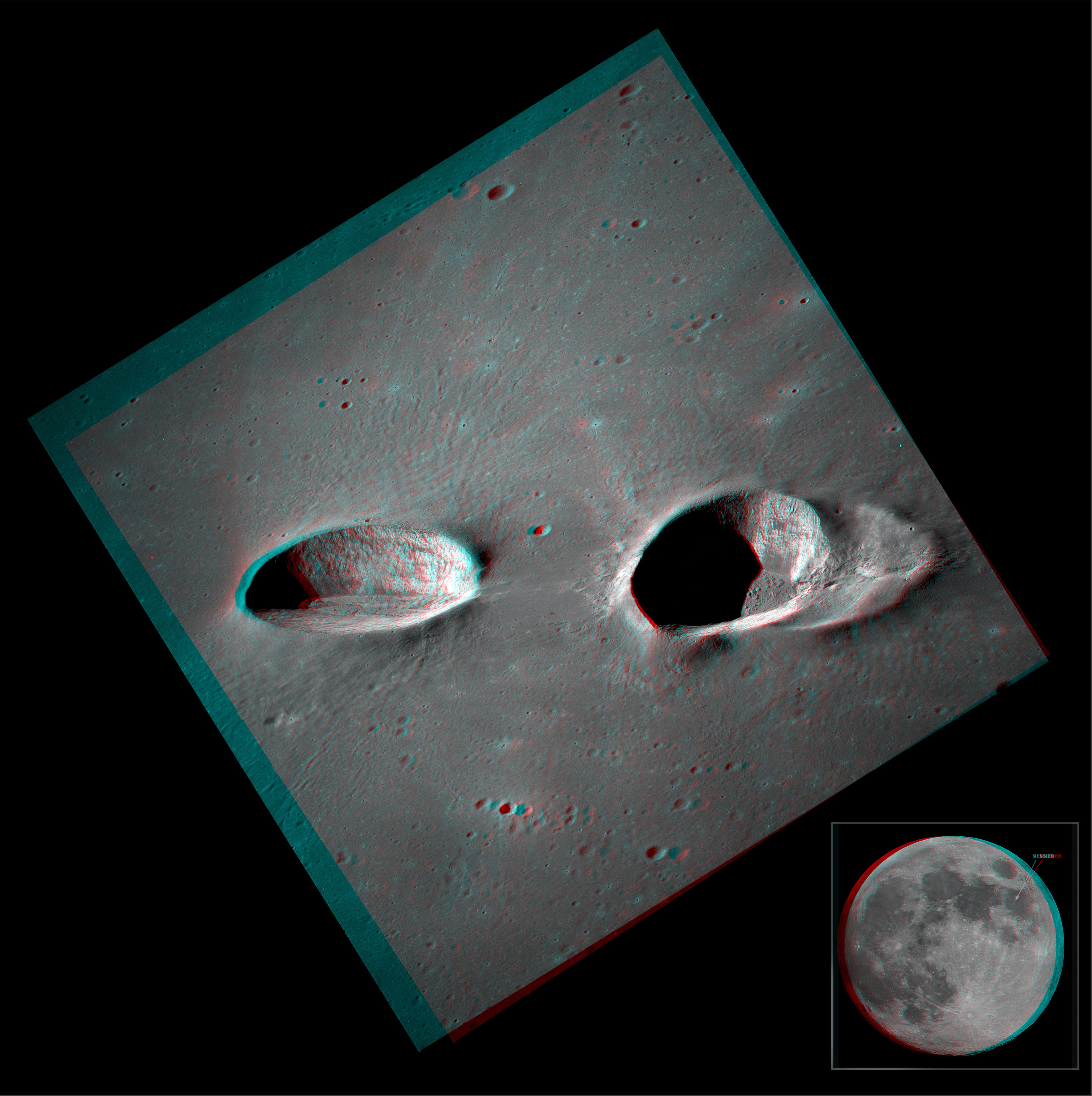 Many bright nebulae and star clusters in planet Earth's sky are associated with the name of astronomer Charles Messier, from his famous 18th century catalogue. His name is also given to these two large and remarkable craters on the Moon. Stand-outs in the dark, smooth lunar Sea of Fertility or Mare Fecunditatis, Messier (left) and Messier A have dimensions of 15 by 8 and 16 by 11 kilometres respectively. Their elongated shapes are explained by an extremely shallow-angle trajectory followed by the impactor, moving left to right, that gouged out the craters. The shallow impact also resulted in two bright rays of material extending along the surface to the right, beyond the picture. Intended to be viewed with red/blue glasses (red for the left eye), this striking stereo picture of the crater pair was recently created from high resolution scans of two images taken during the Apollo 11 mission to the moon (AS11-42-6304 and AS11-42-6305).